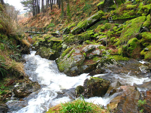 Two burns meet, Roshven The point at which two burns join on Roshven Estate, a 4500 acre highland estate. The burn empties into Loch Ailort to the northwest.